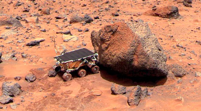 Sojourner rover taking an Alpha Proton X-ray Spectrometer measurement of Yogi. Pathfinder mission - Mars exploration - NASA